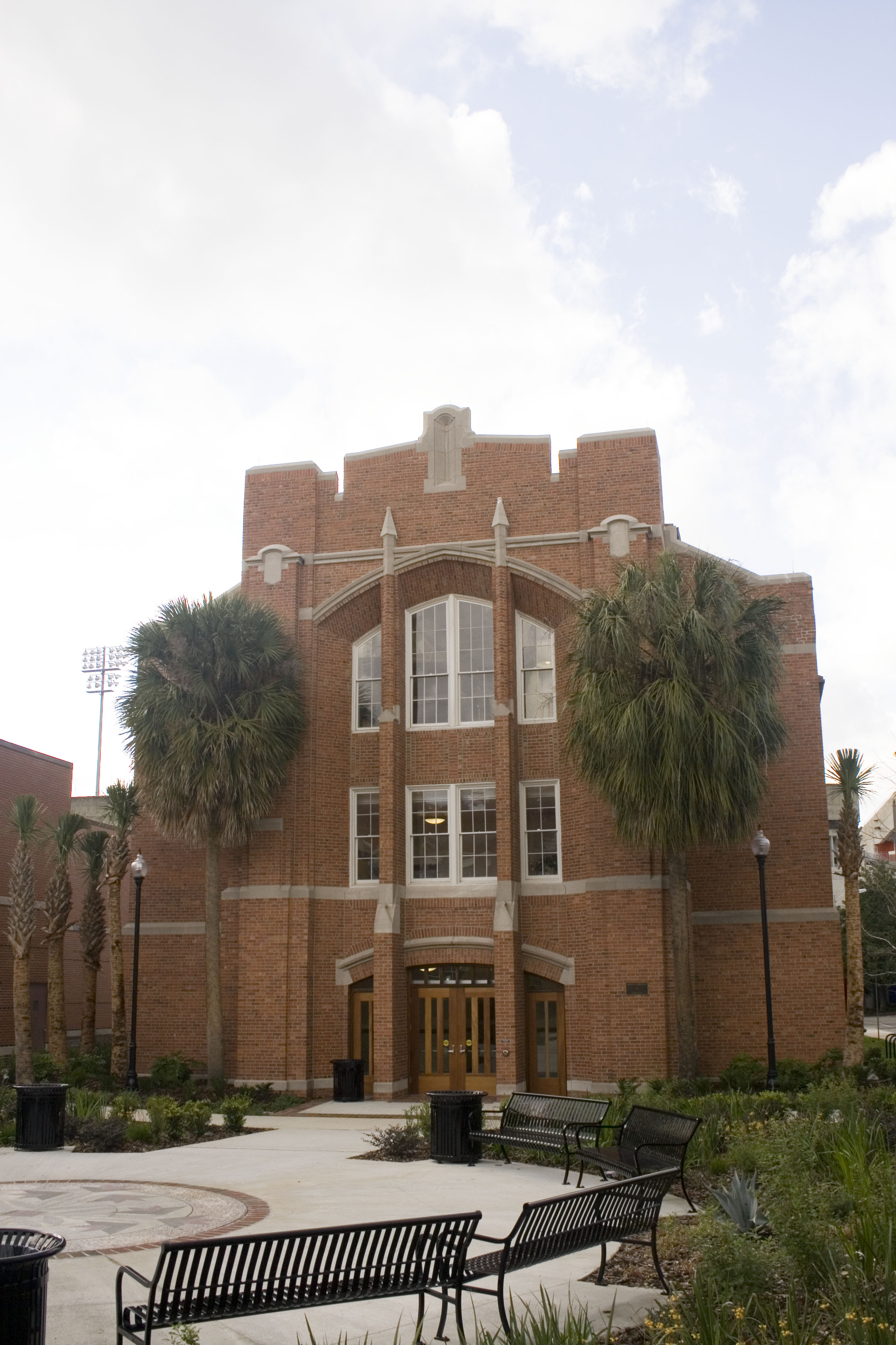 Taken by me on 6 January 2007. --Douglas Whitaker 23:13, 6 January 2007 (UTC)